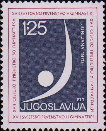 Yugoslav stamp dedicated to the 1970 World Artistic Gymnastics Championships